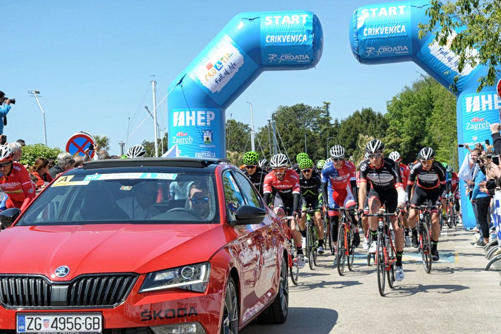 Tour of Croatia